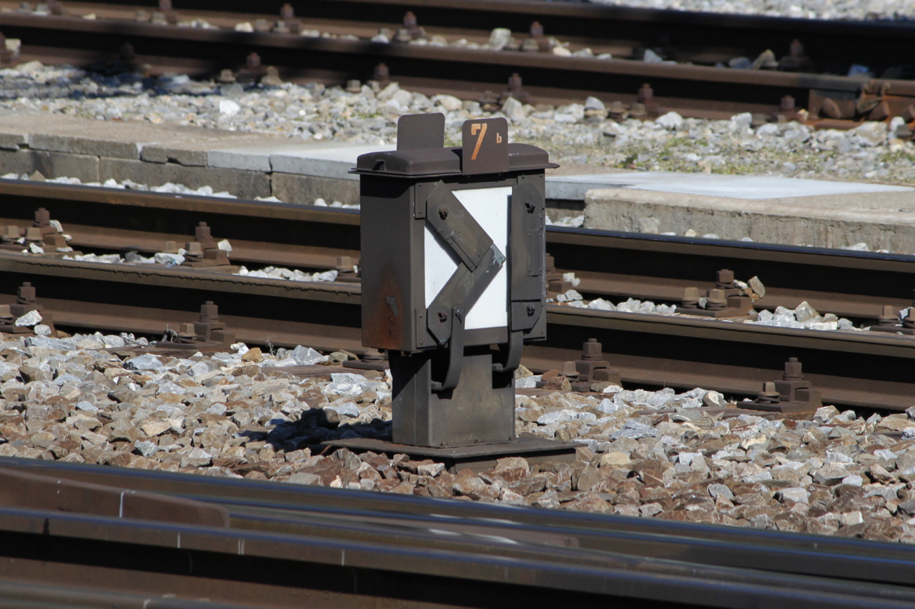 Signal of a double slip switch at Brig train station.